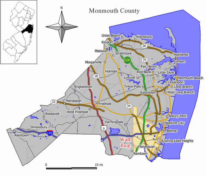 Locator map of Wall Township in Monmouth County, New Jersey